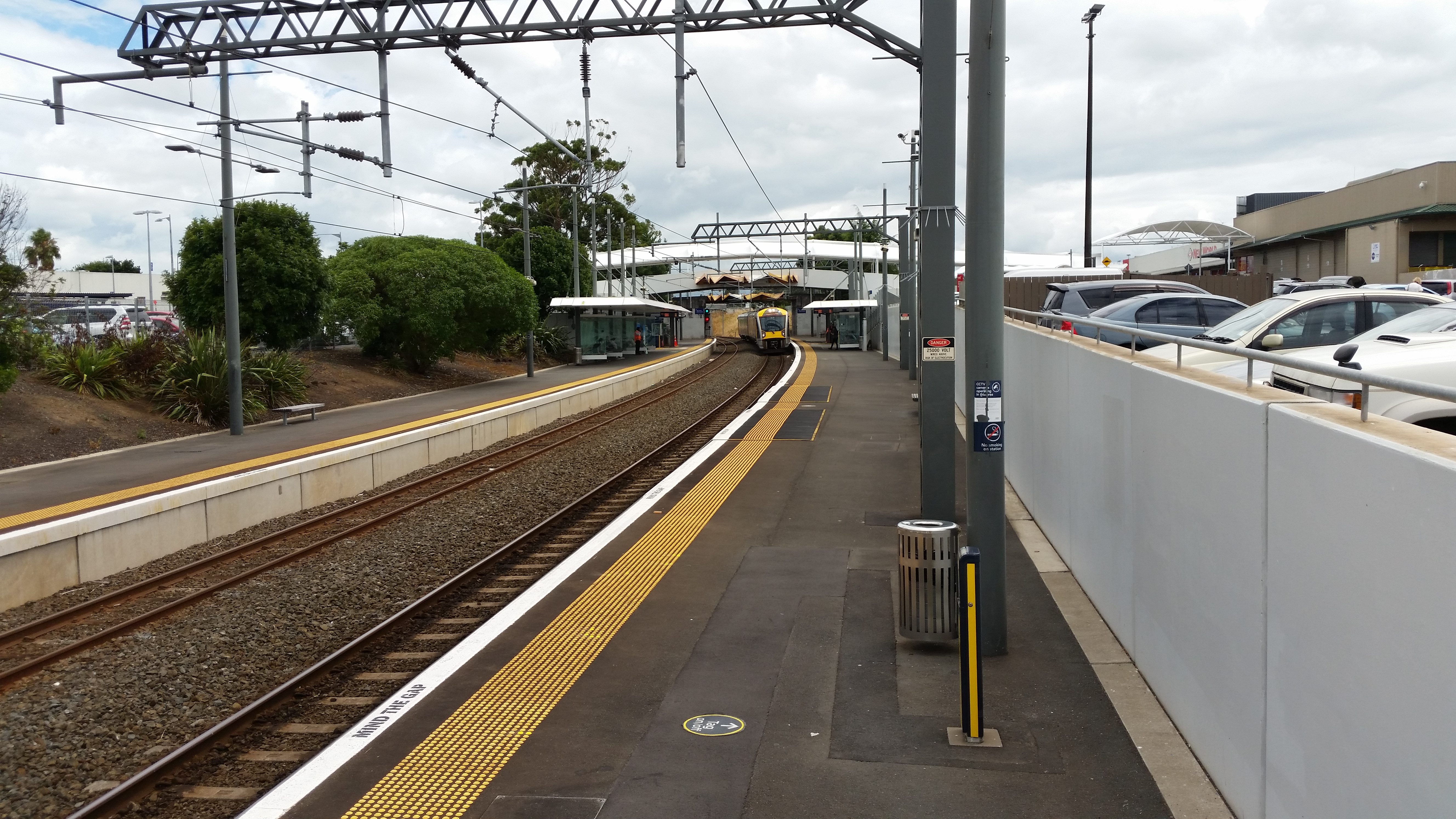 Manurewa railway station, January 15 2018, seen from the south